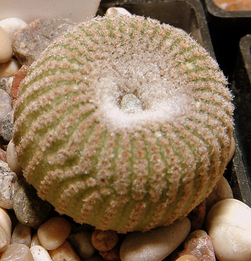 Picture taken at SuccSeed